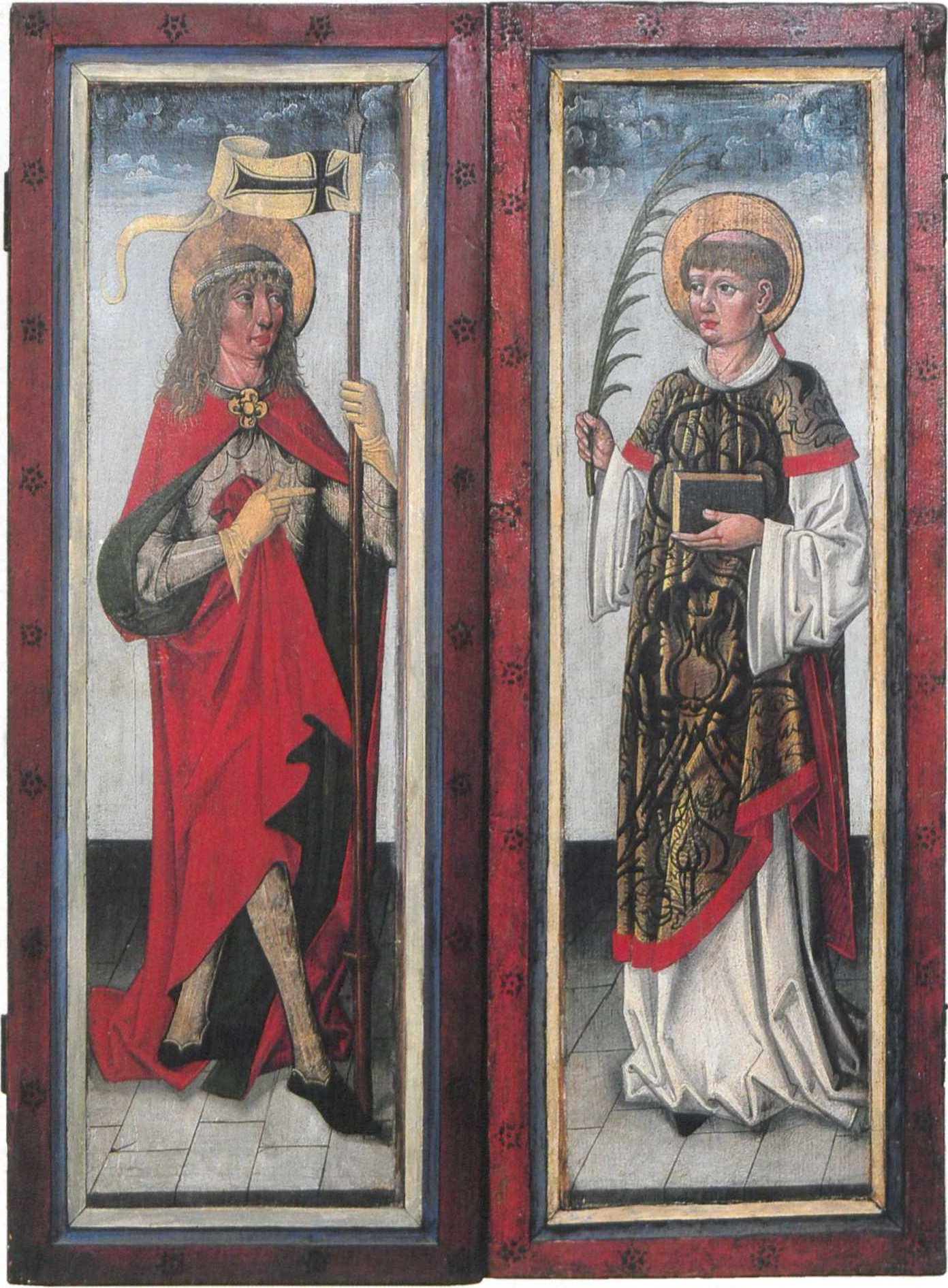 Painting from reredos of Merseburg Cathedral, end of 15h century, showing saints Romanusc of Rome anx Maximus of Avium